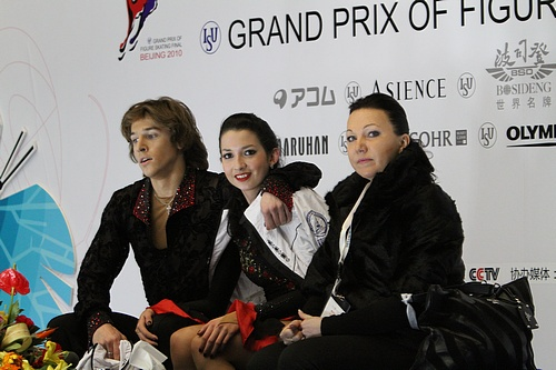 Ksenia Monko / Kirill Khaliavin with their coache Olga Riabinina at the 2010-2011 Junior Grand Prix of Figure Skating Final.